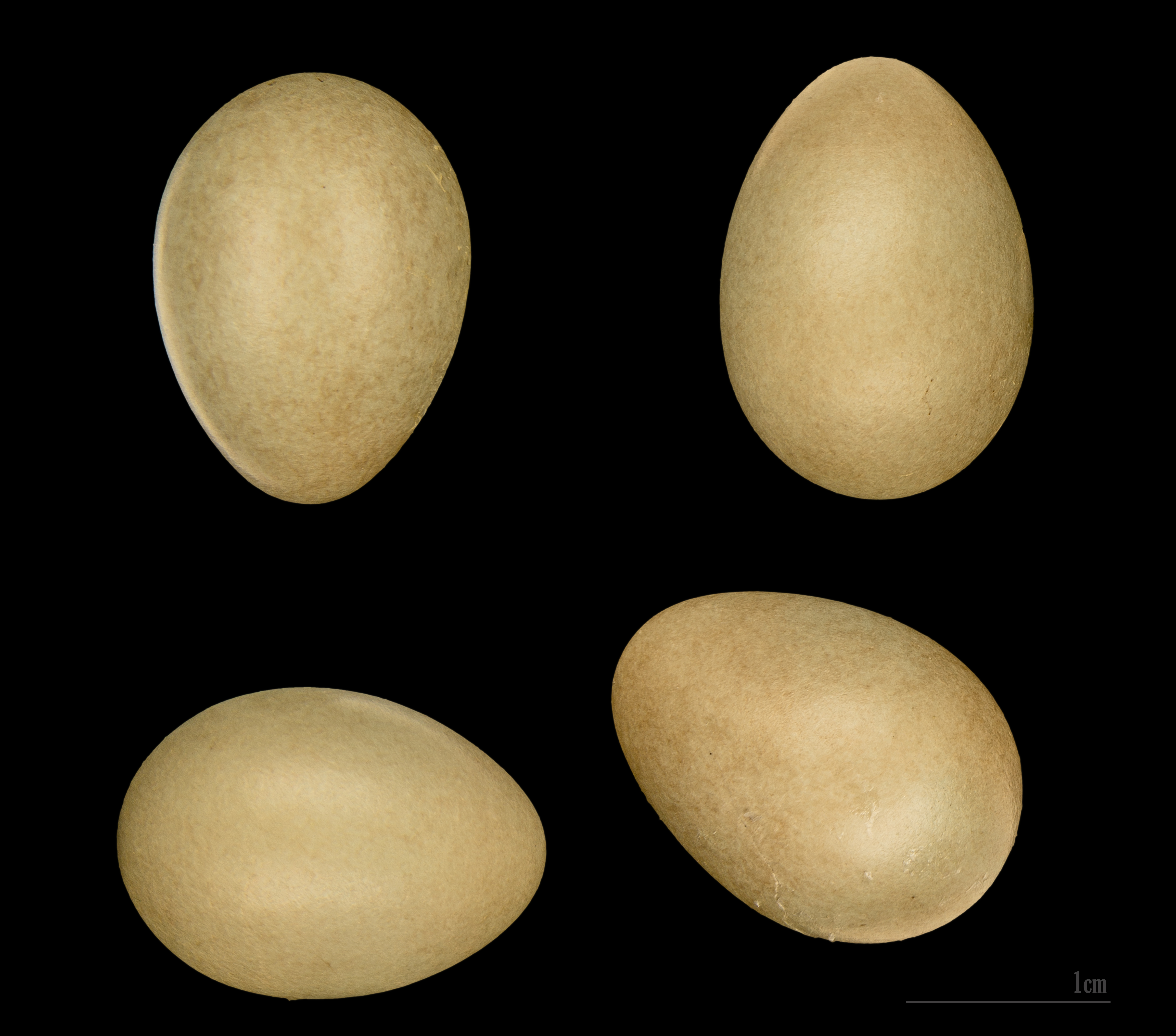 Egg of Common Nightingal. Collection of Henri Heim de Balsac /Jacques Perrin de Brichambaut.